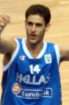 The Greek National Team of Basketball... Greece edged Turkey in a EuroBasket Quarter-Final thriller. [Turkey 74-76 Greece, Eyrobasket 2009, Poland] Turkey 76-74 Greece